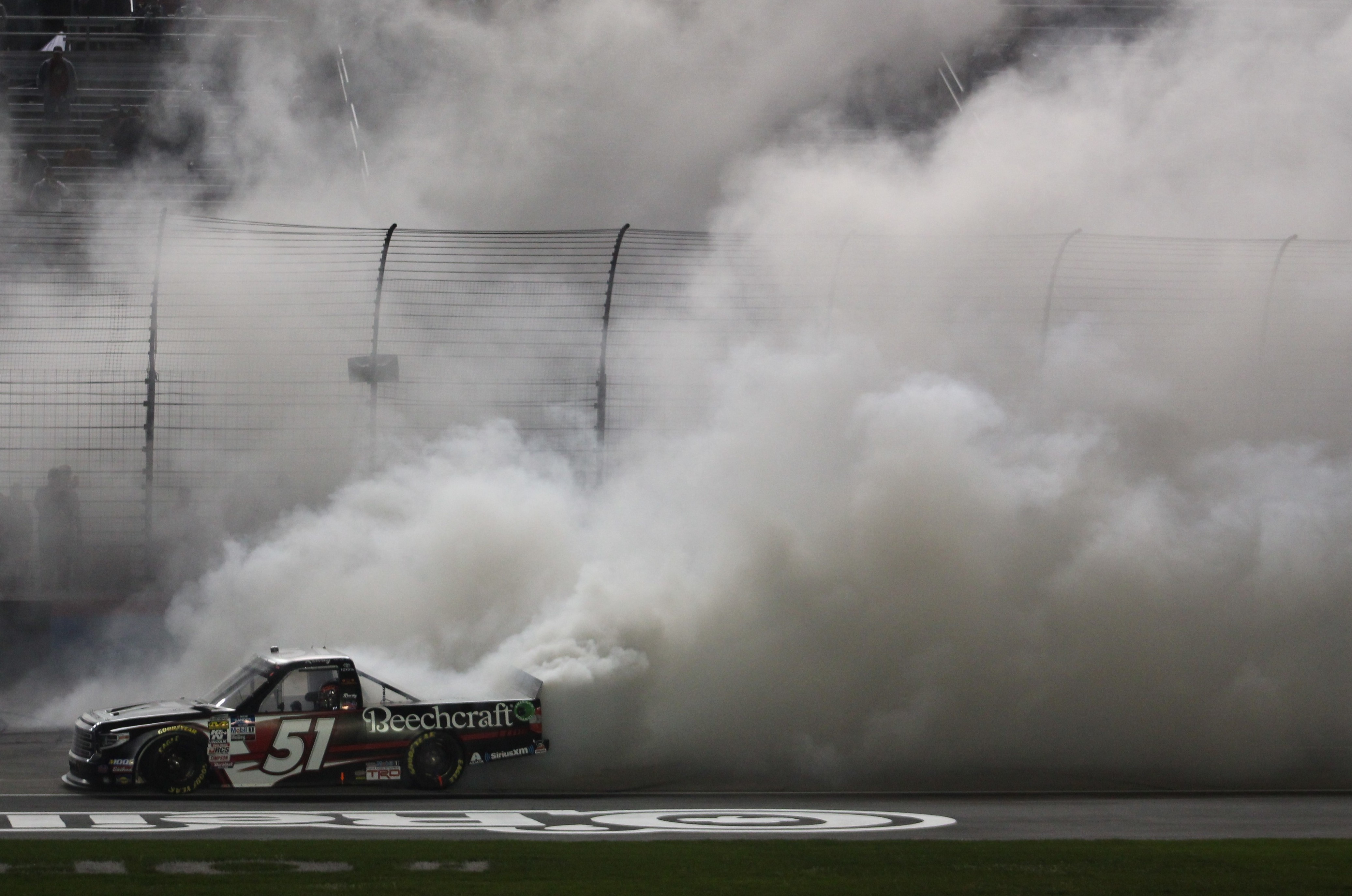 2019 O'Reilly Auto Parts 500